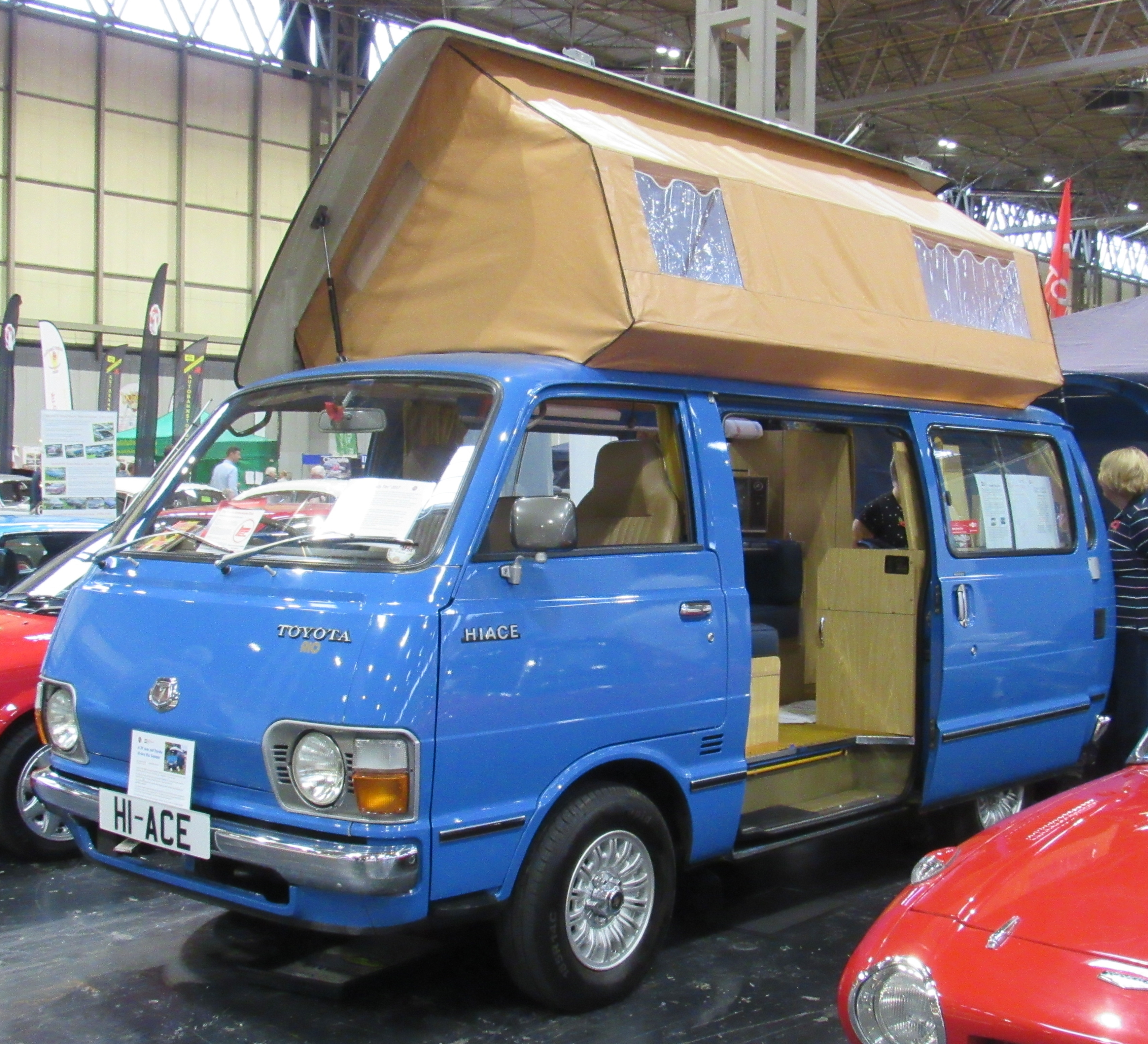 1978 Toyota HiAce Camper 1.6 Taken at the NEC Classic Motor Show 2017